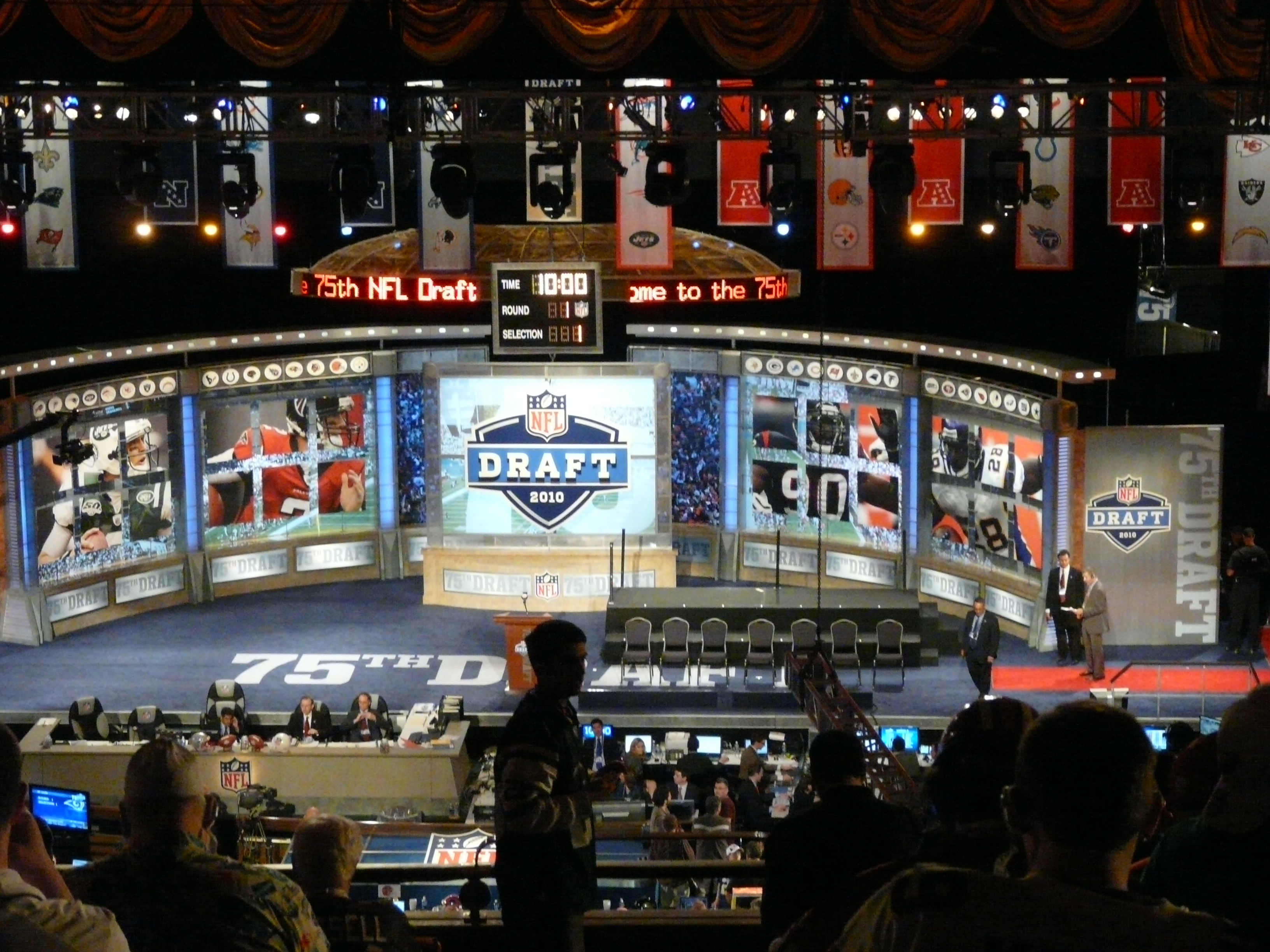 Stage as seen from the 2nd floor balcony.